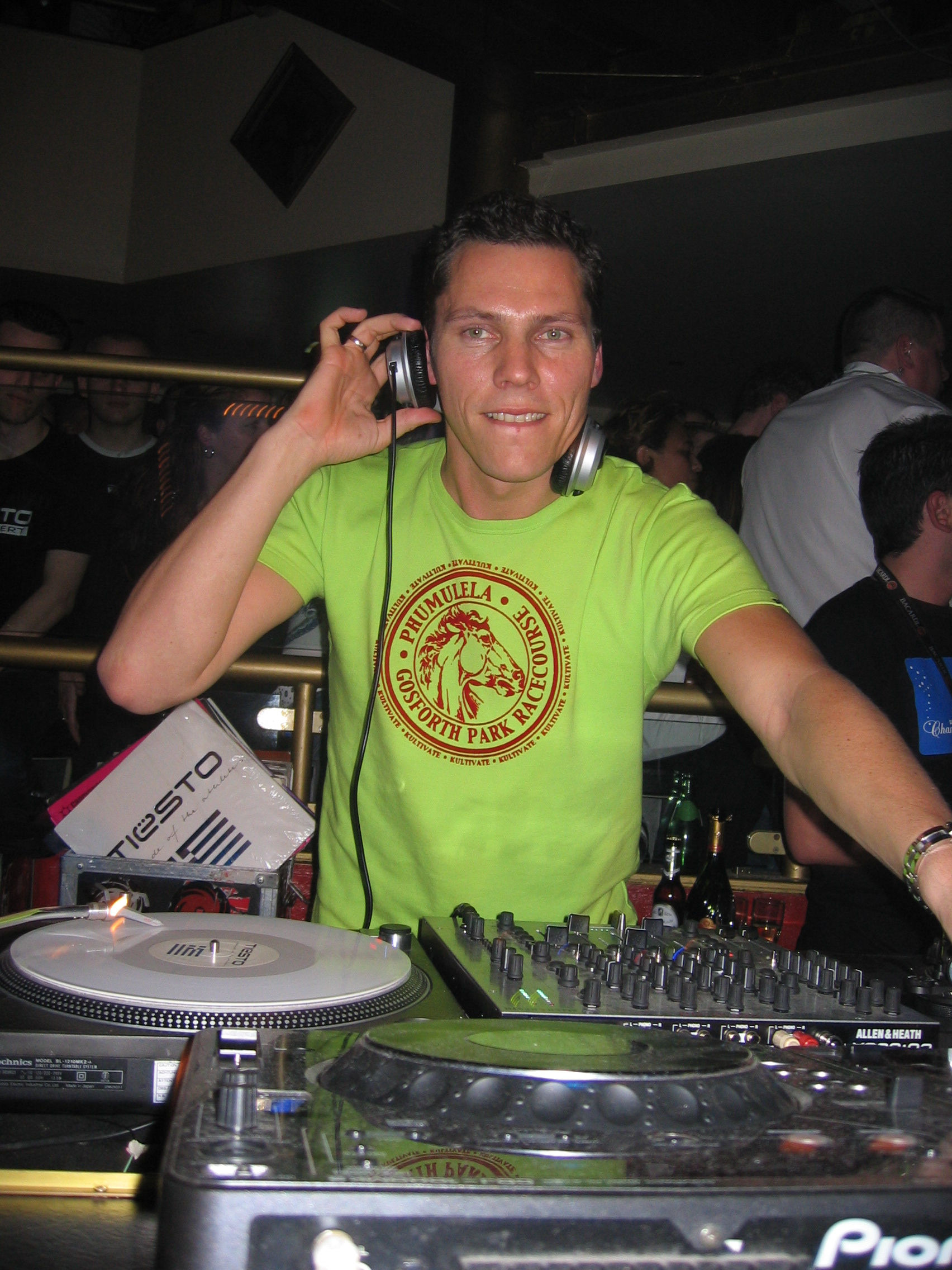 DJ Tiësto